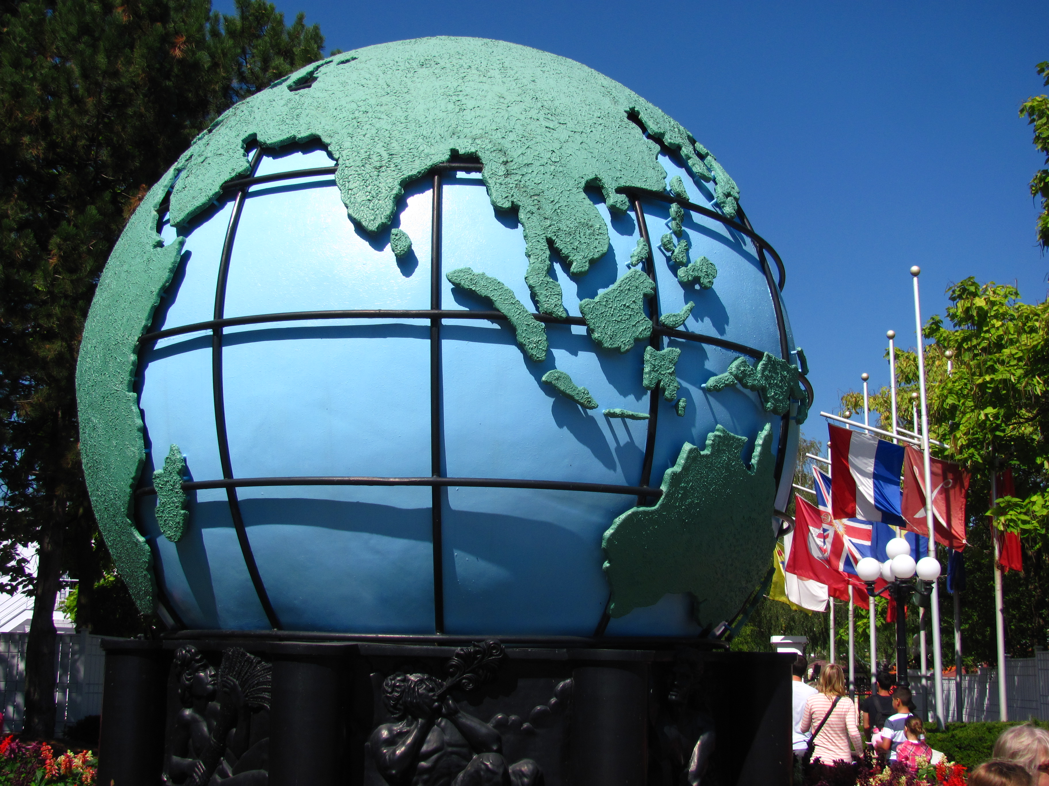 A globe at the Grande World Exposition of 1890, a themed area of Canada's Wonderland.